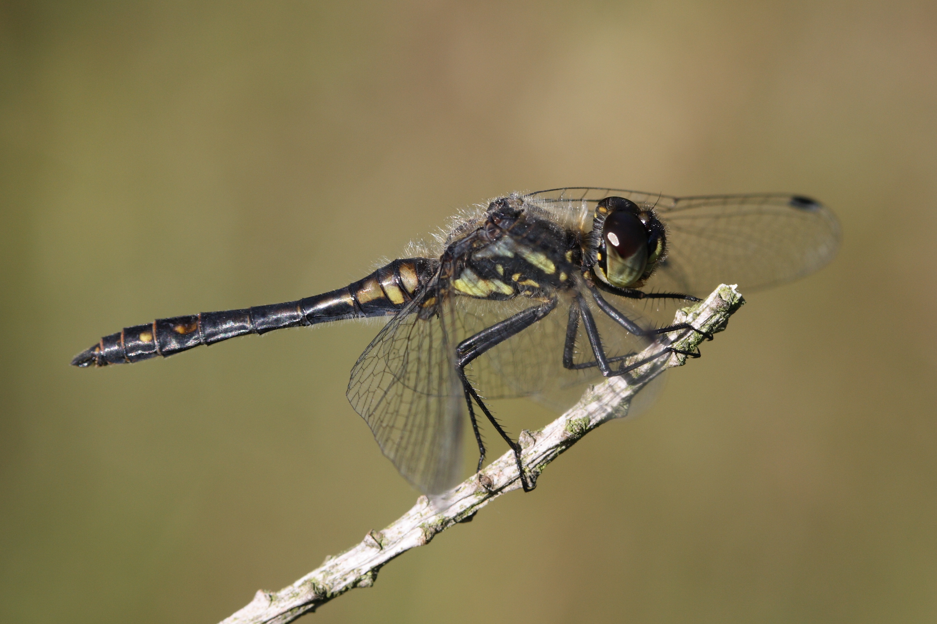 Male Black Darter (Sympetrum danae) in the Ahlenmoor, a hill moor in northern Lower Saxony, Germany. In last June until first August weeks 2008 a mass development of the Black Darter in the Ahlenmoor was to be observed.